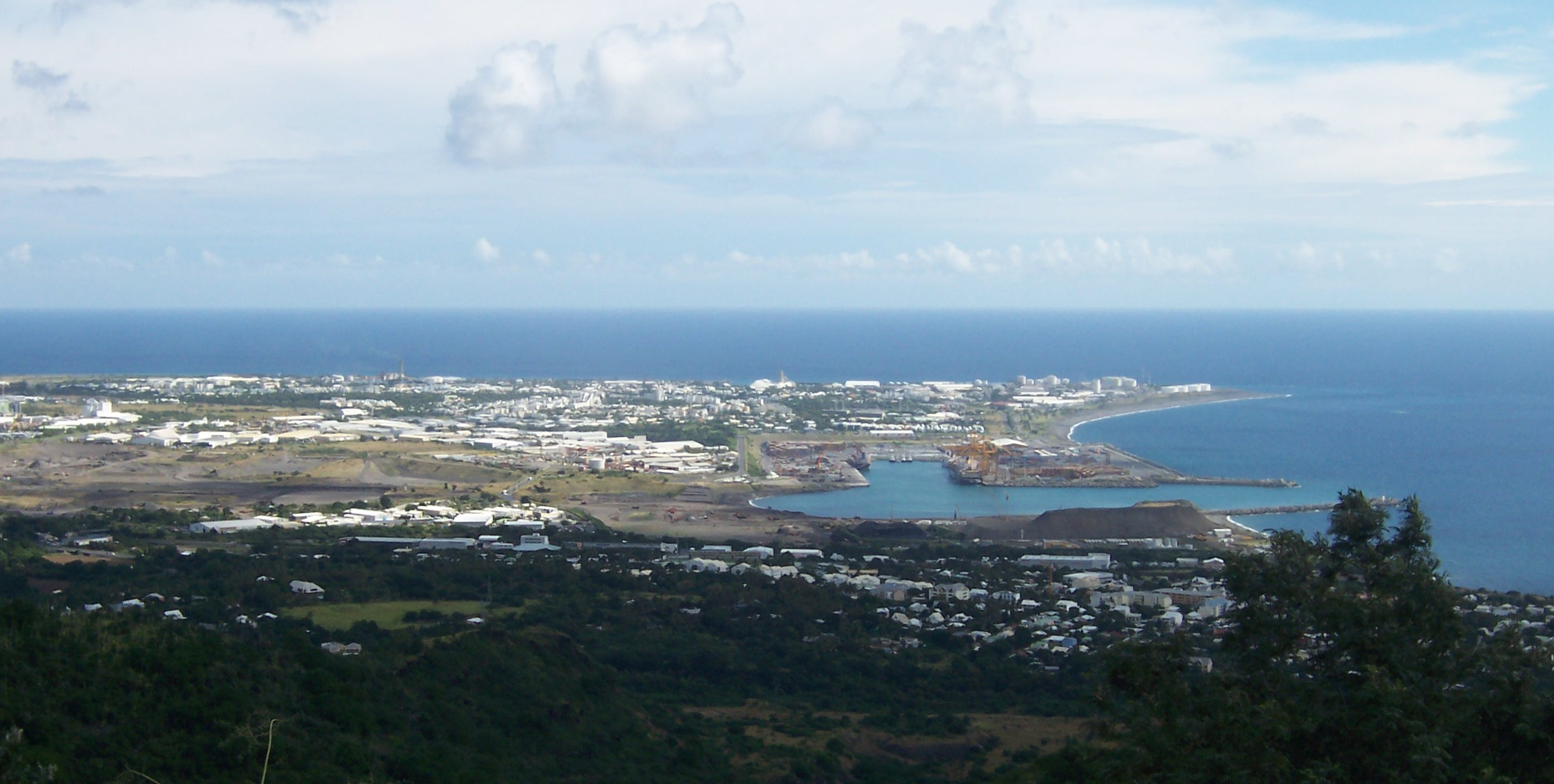 City of Le Port (Réunion island) : overview from the «Route de la Montagne»